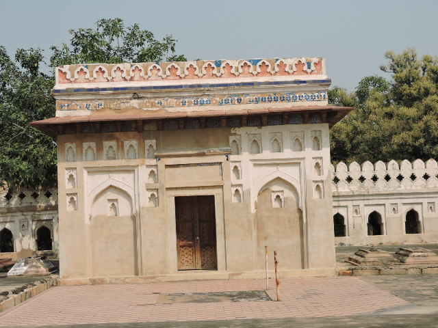 Tomb of Jamali Kamboh,Mehrauli ,Archeological Park, Delhi